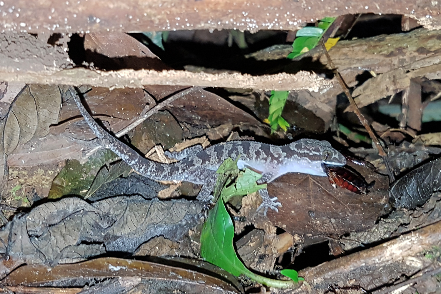 Cyrtodactylus cattienensis eating cockroach in Cat Tien National Park